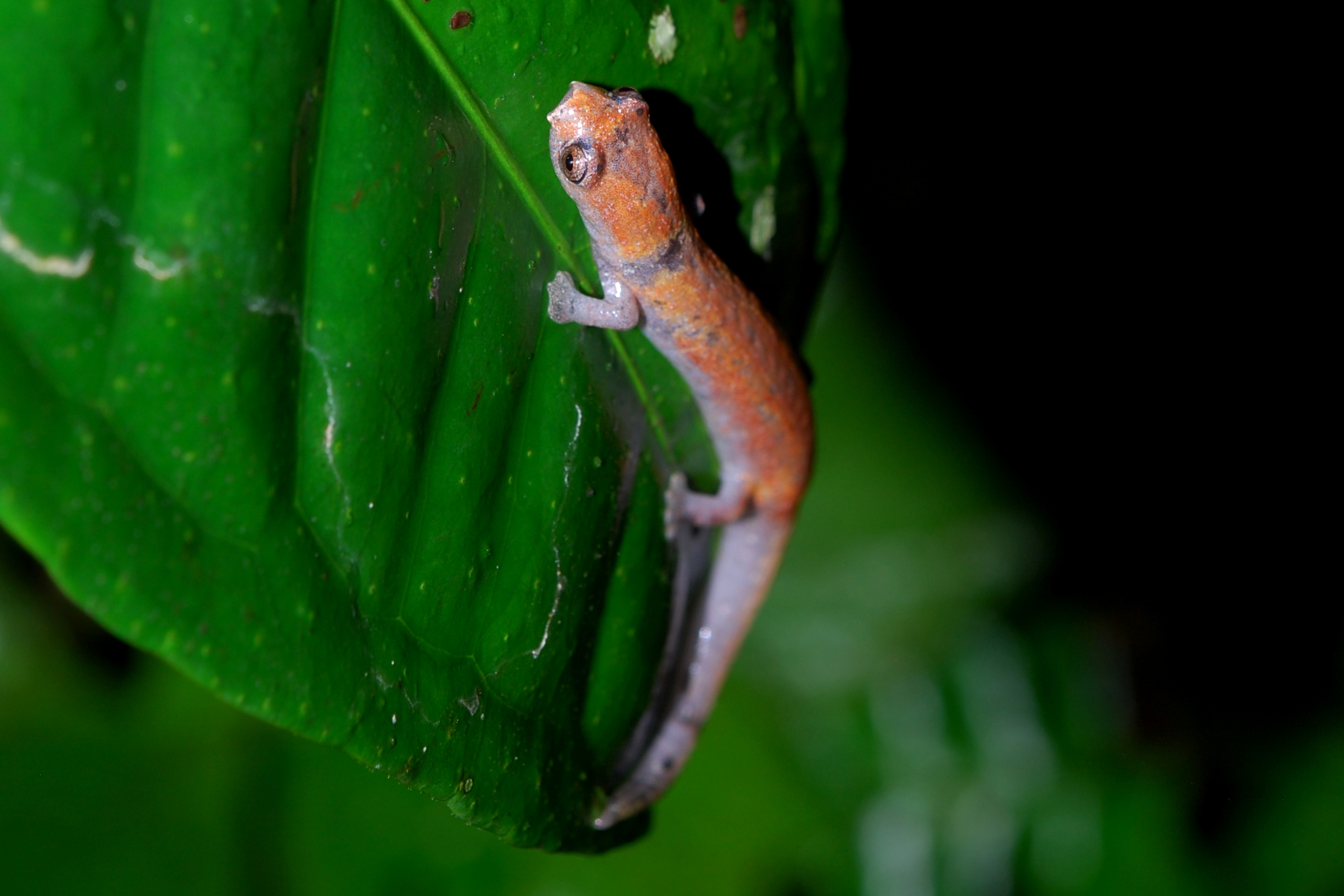 An Amazon Climbing Salamander (Bolitoglossa altamazonica) in Yasuni National Park, Ecuador.